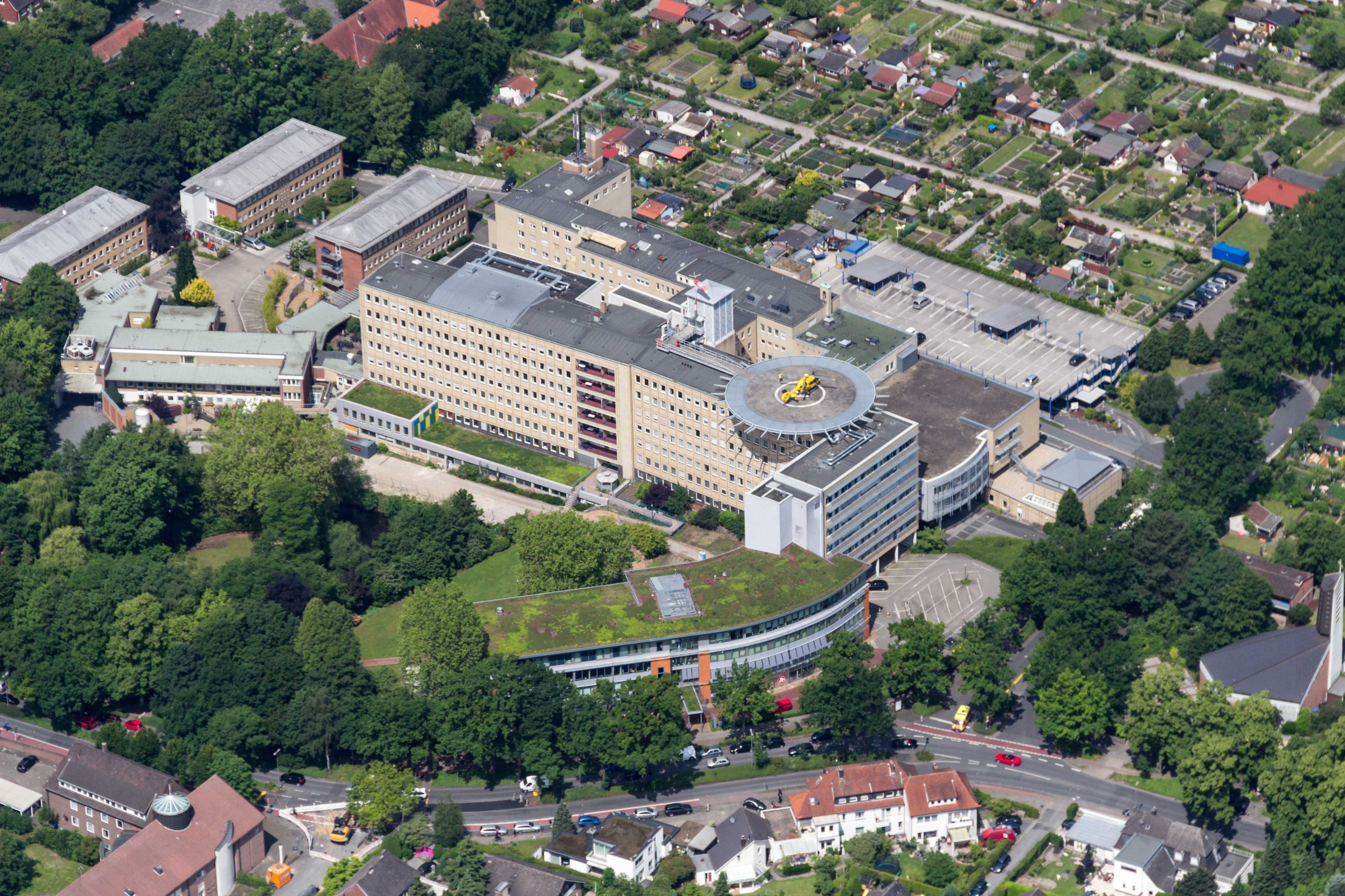 Clemens-Hospital, Münster, North Rhine-Westphalia, Germany